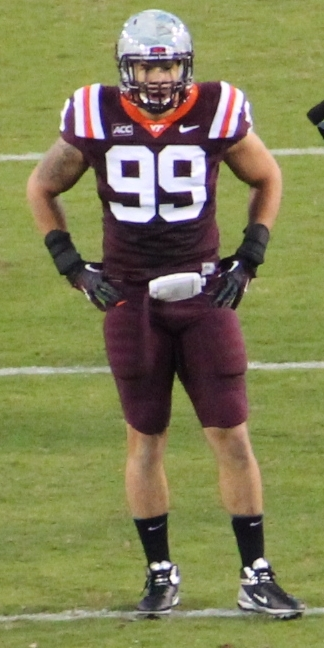 Defensive end James Gayler, 2013